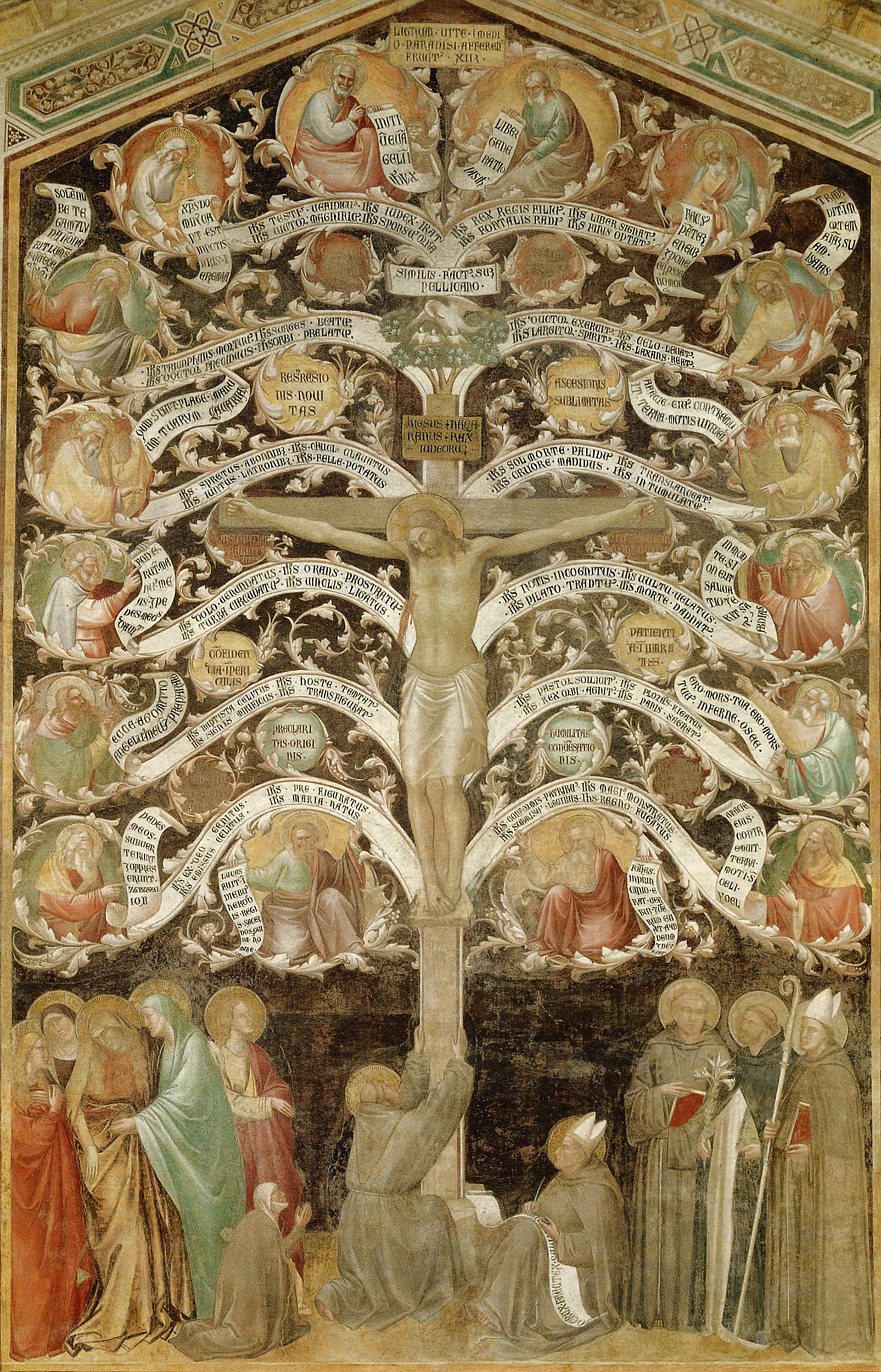 Fresco of the Tree of Life, inspired by Saint Bonaventure's The Tree of Life (Lignum vitae), in the refectory of the convent of Santa Croce, Florence.